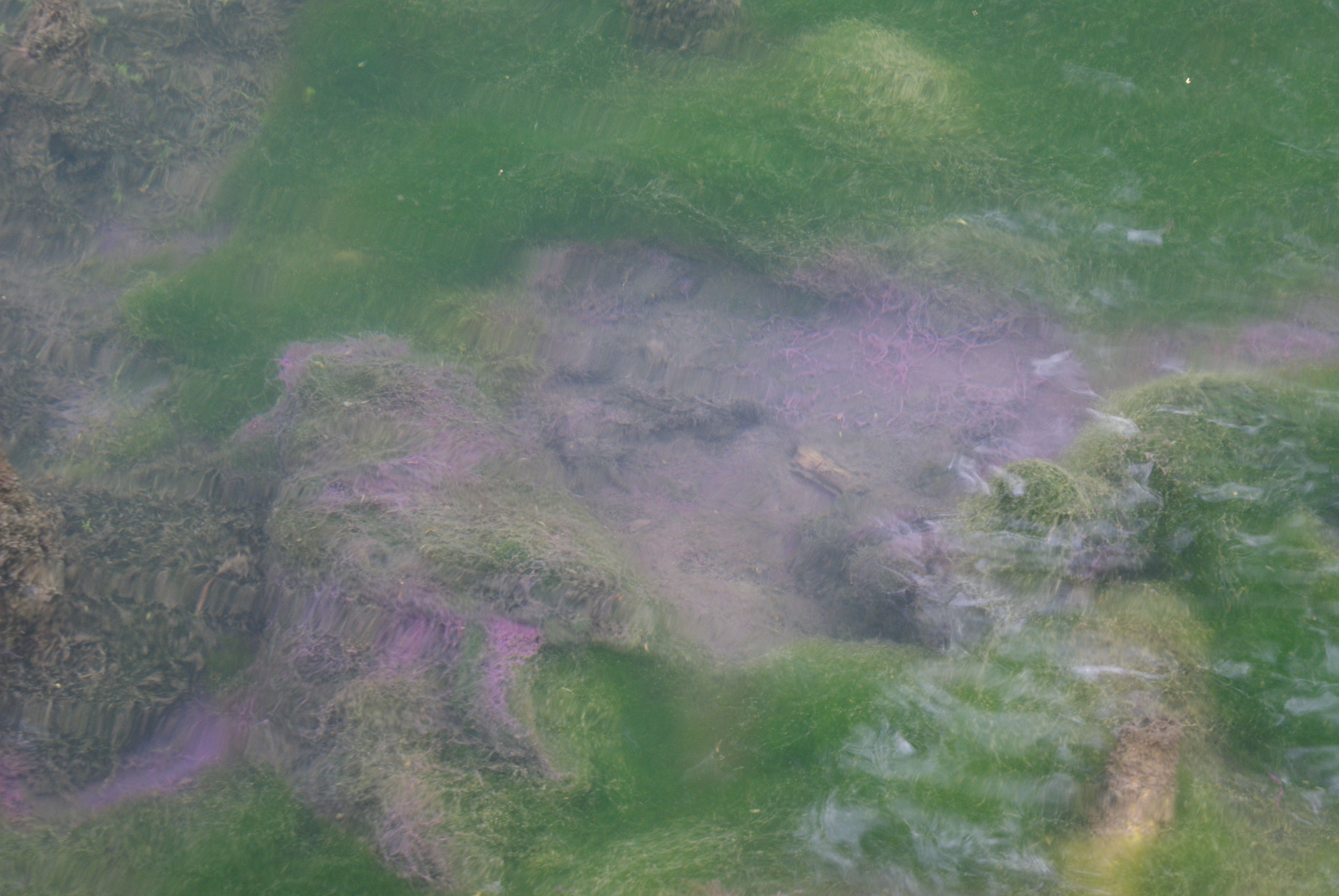 Golubaya Krynitsa in Slavgorod district